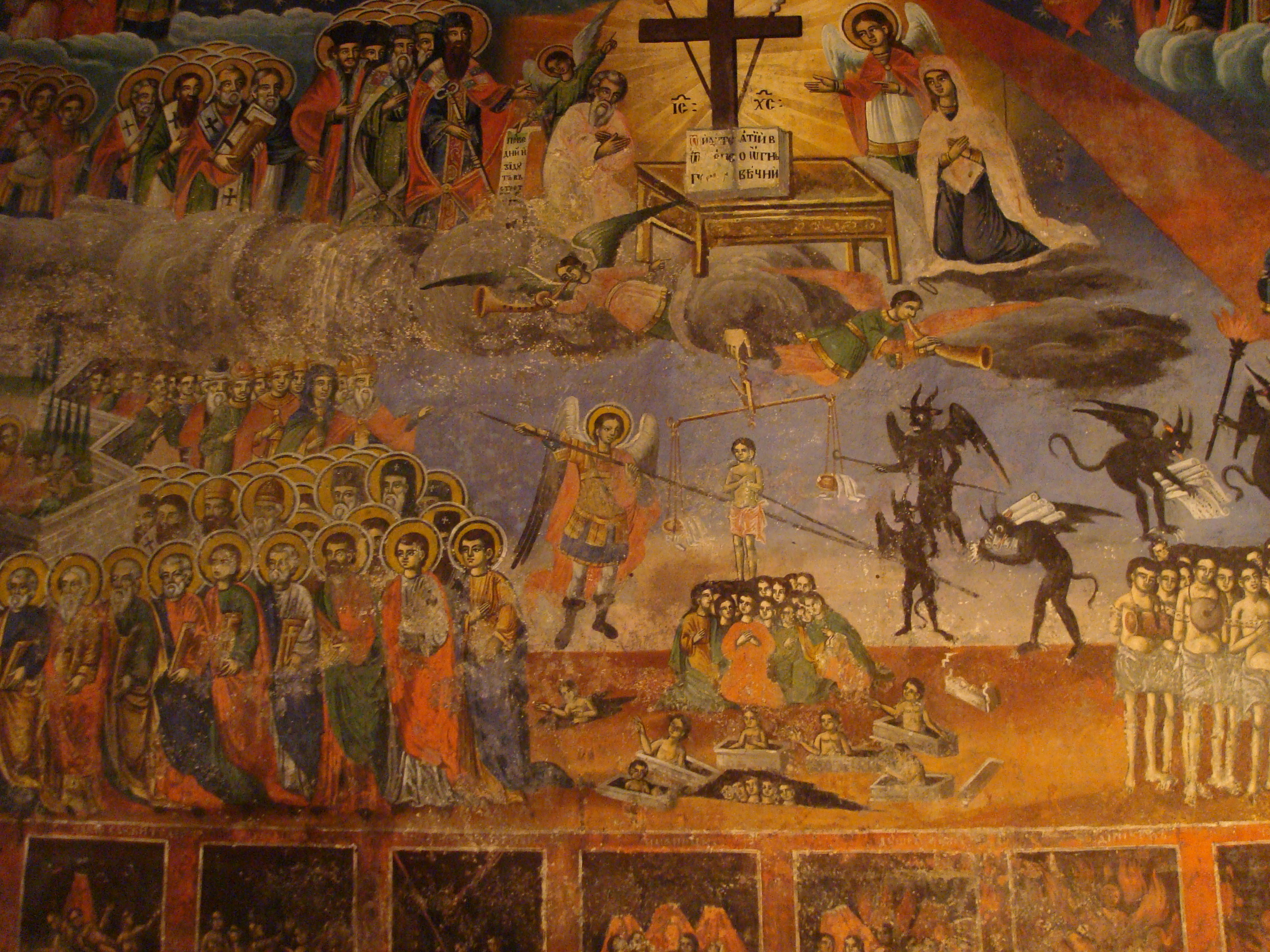 Part of the iconostasis in St. Mother of Got church, Lešok Monastery, Macedonia